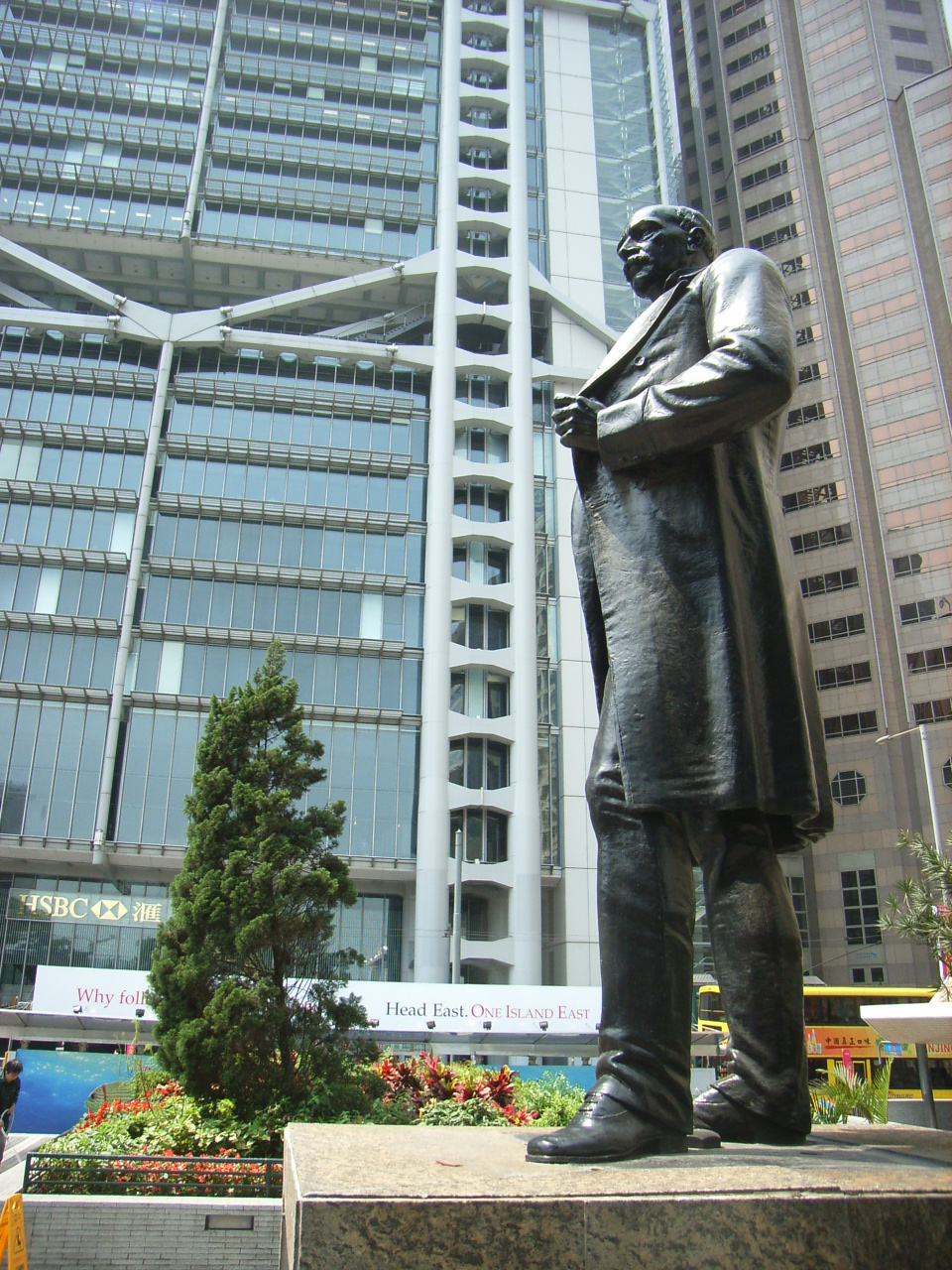 Statue Square 皇后像廣場 is a public pedestrian sqwuare in Central, HK